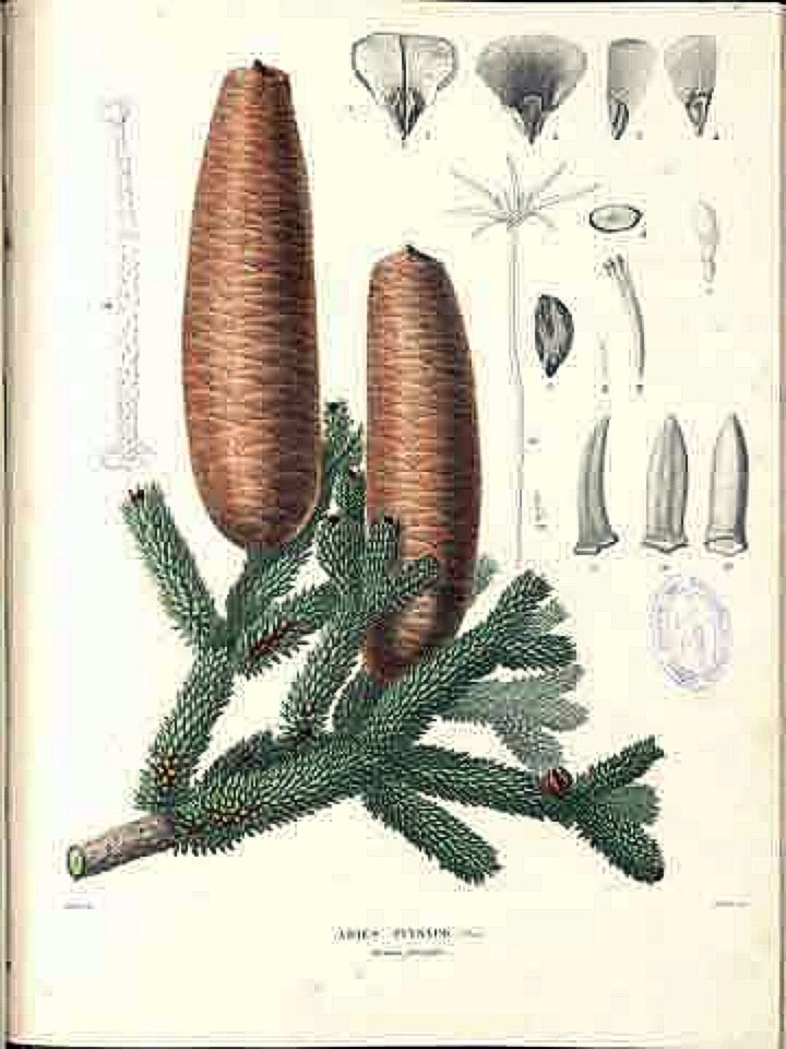 Coloured plate illustrating Abies pinsapo from ‘Voyage Botanique dans le Midi de l’Espangne’